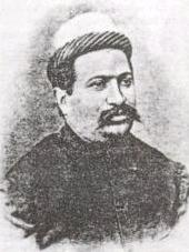 Note: Jamshedji Framji Madan died in 1923.